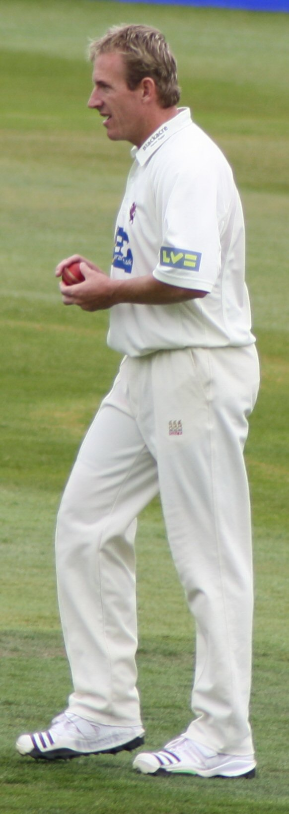 Damien Wright starting his run-up to bowl during a County Championship match for Somerset against Essex at the County Ground, Taunton.